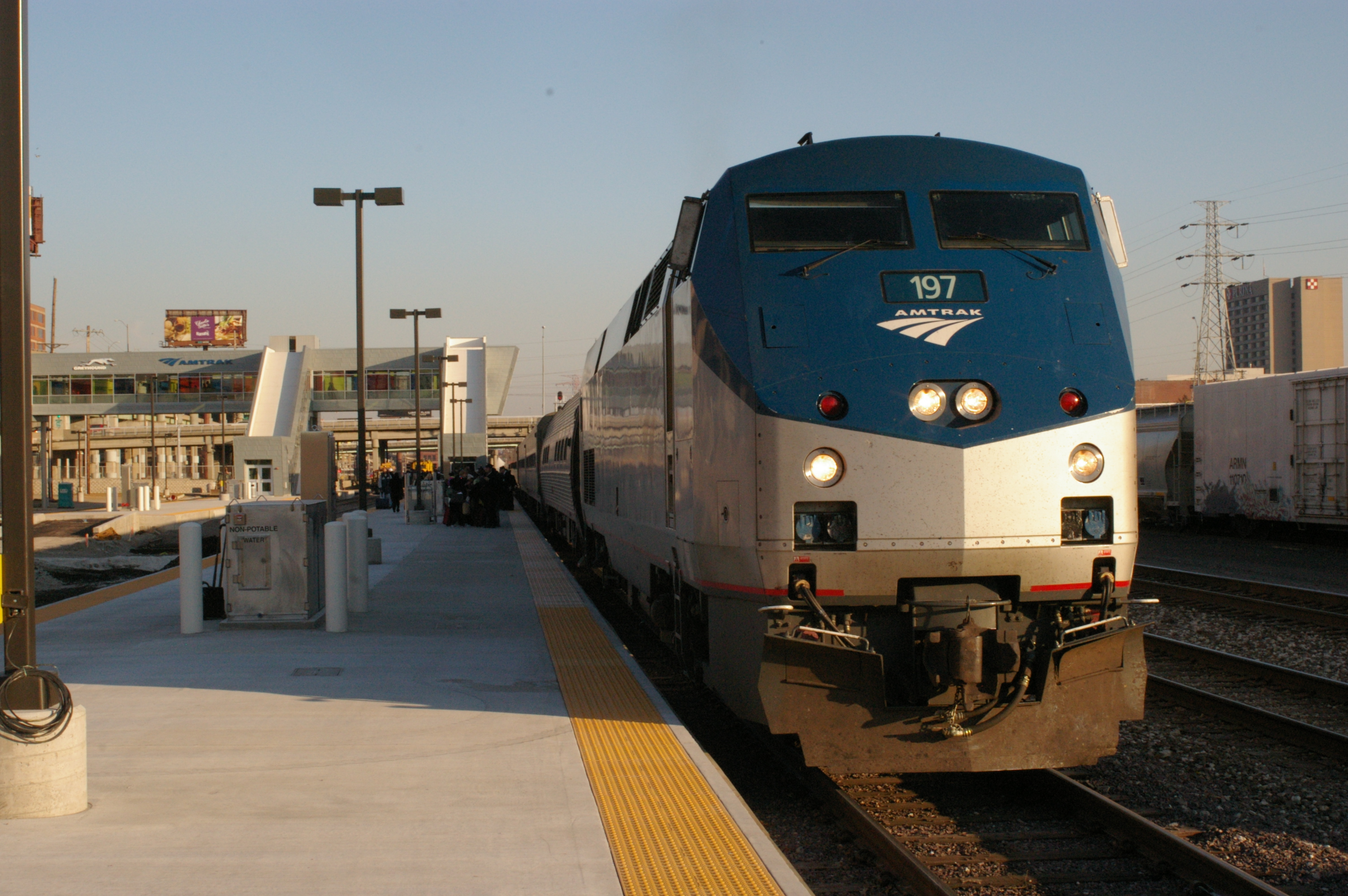 Amtrak Lincoln Service train 303 lays over at St. Louis before continuing on as Ann Rutledge train 313 in November 2008